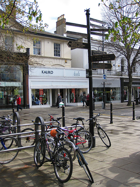 Bicycles here please Next to a signpost on the Promenade, directing visitors to the many attractions of Cheltenham.